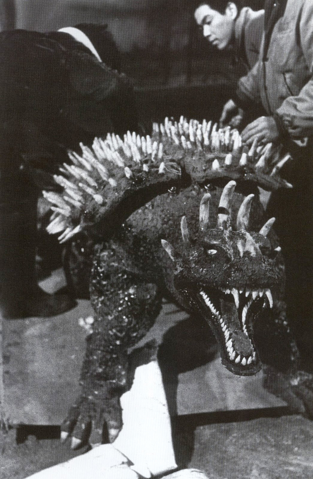 Construction of Anguirus suit during production of Godzilla Raids Again.